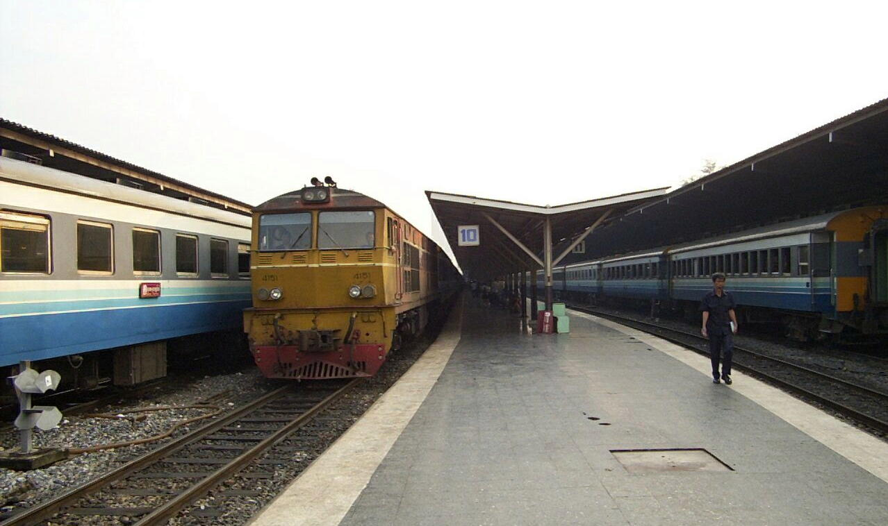 Bankok-Trang overnight train / Waiting to leave Hualamphong Station, Bangkok.